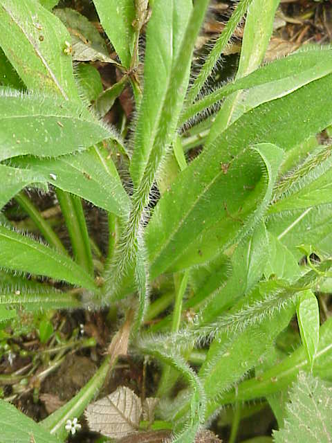 Species Hieracium aurantiacum Familia Asteraceae Image no. 2 Permission granted to use under GFDL by Kurt Stueber